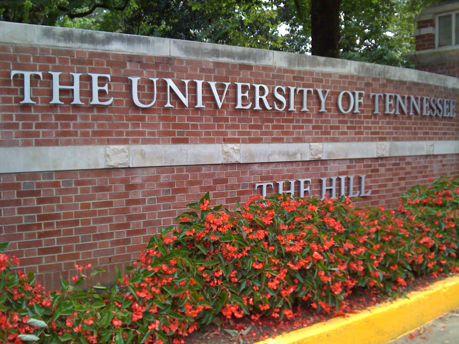 The Hill